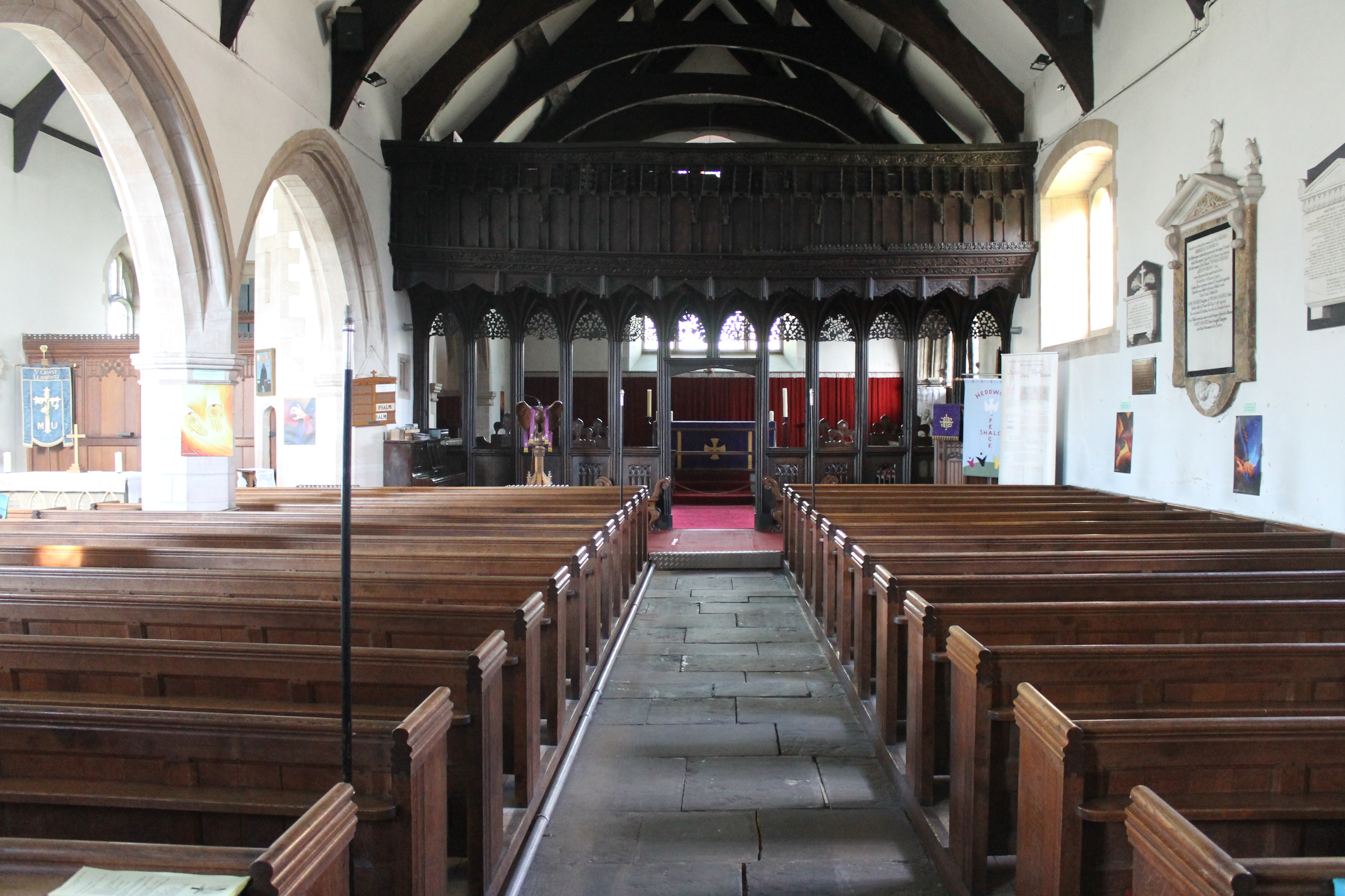 Gwydir Chapel, St Crwst Church, Conway Borough Council, Wales. The church was attirubted to Inigo Jones, and commissioned in 1636 by Sir Richard Wynn, son of John. It houses the coffins of Llywelyn the Great